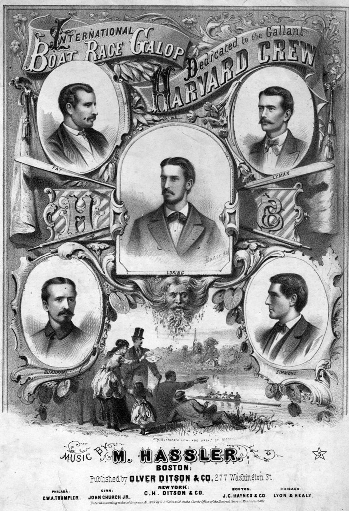 "International Boat Race Gallop Dedicated to the gallant Harvard Crew" - sheet music cover illustration - 1869